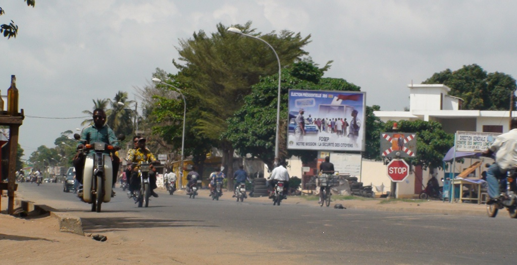 Togo preparing for the elections of March 4. UNDP supported the organization of the election, particularly by building the capactiies of the Independent National Electoral Commission (CENI) and through a campaign appealing for peace.